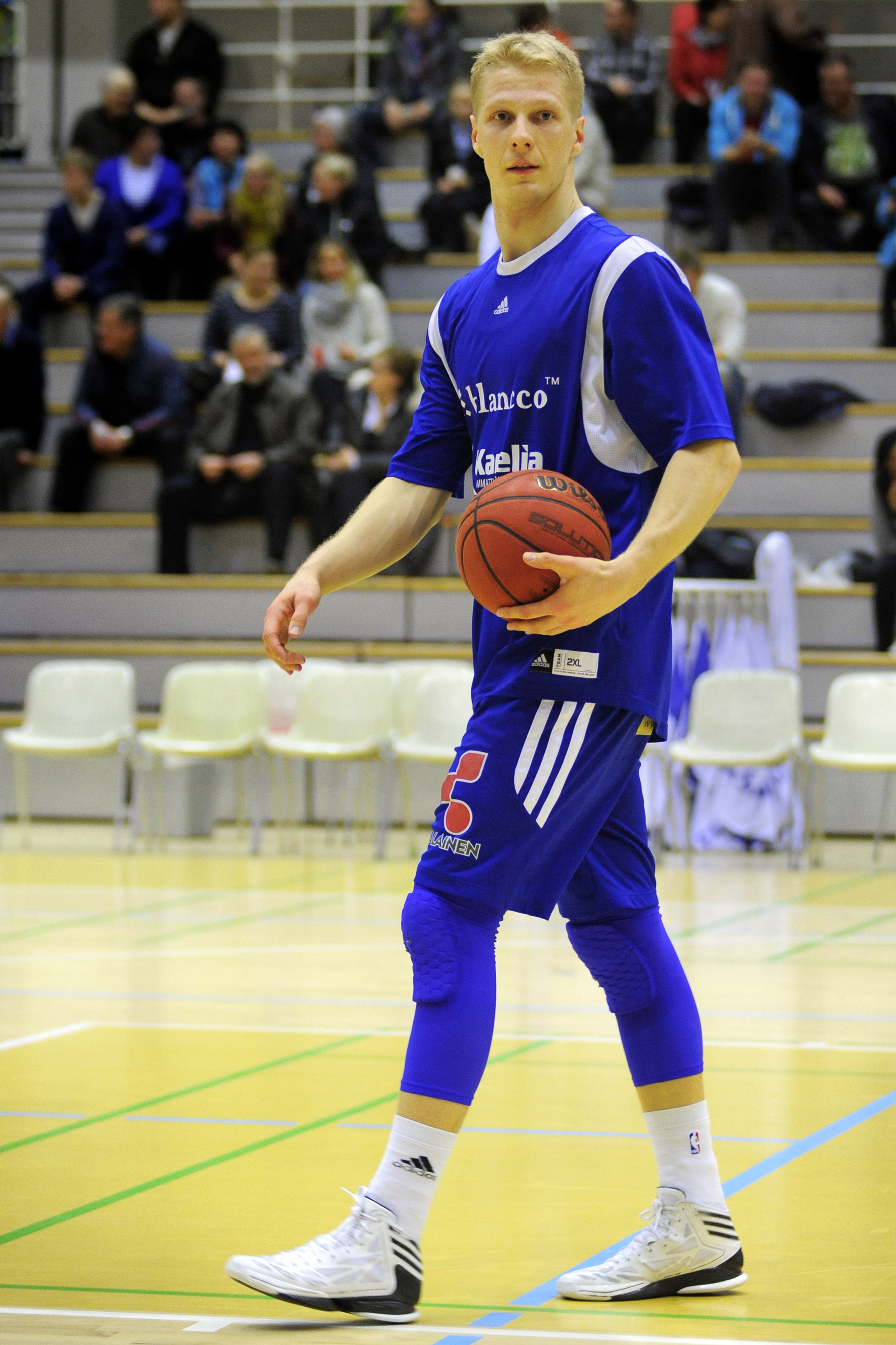 Finnish basketball player Juho Nenonen